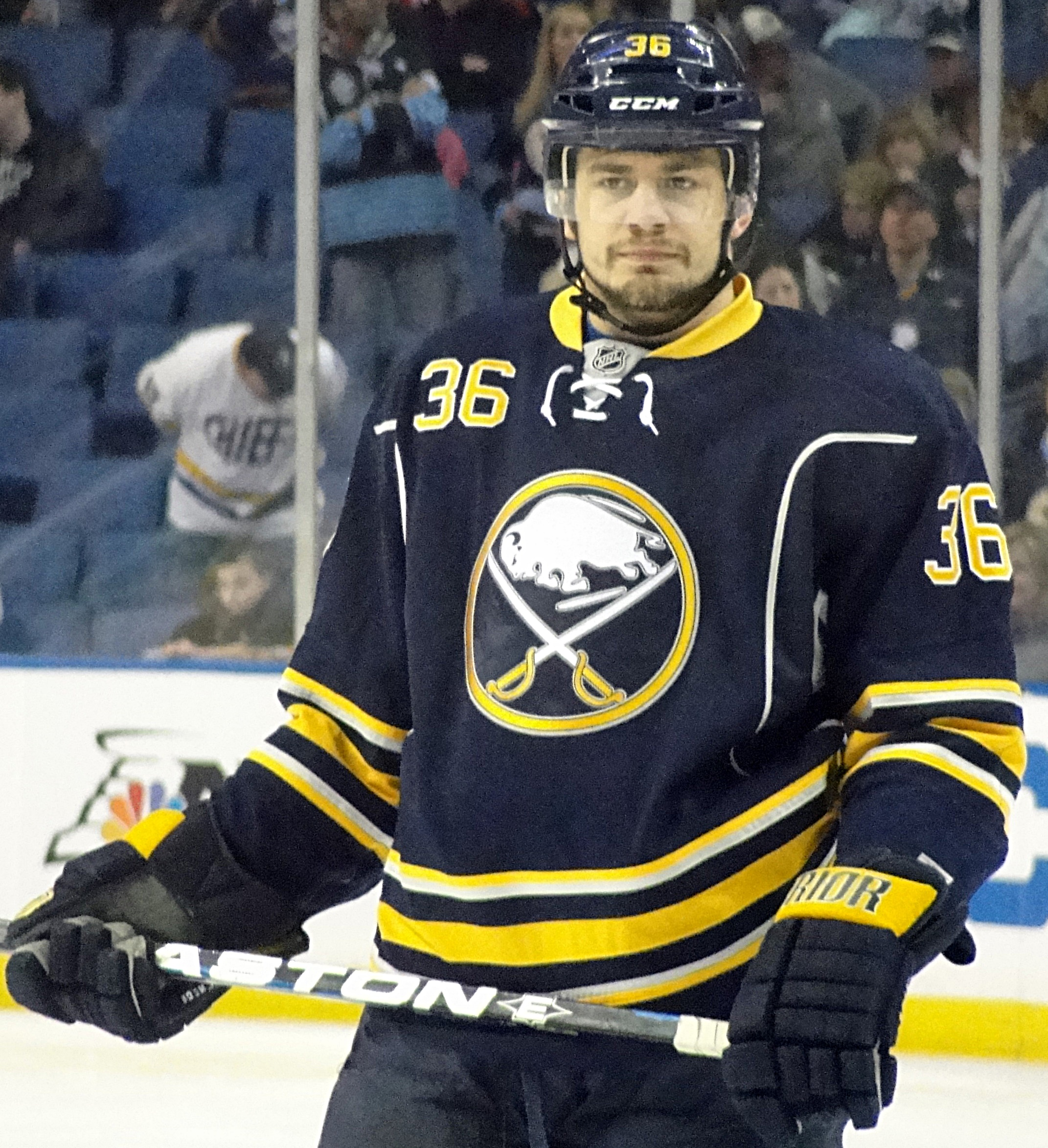 Buffalo Sabres forward Patrick Kaleta warms up for a February 19, 2012 game against the Pittsburgh Penguins at First Niagara Center in Buffalo, NY.